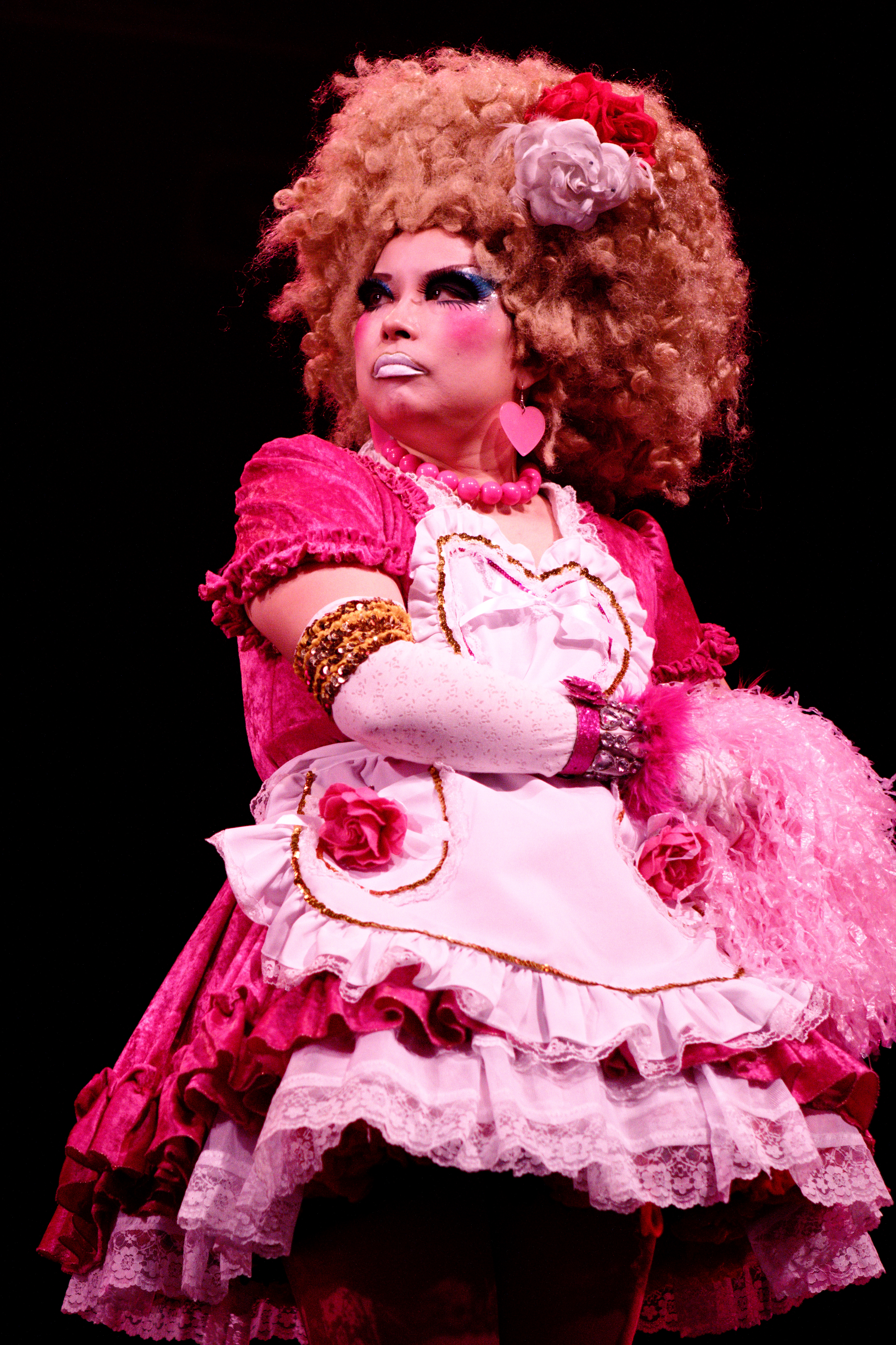 Les Romanesques live at Japan Expo 2011 (Paris, France).